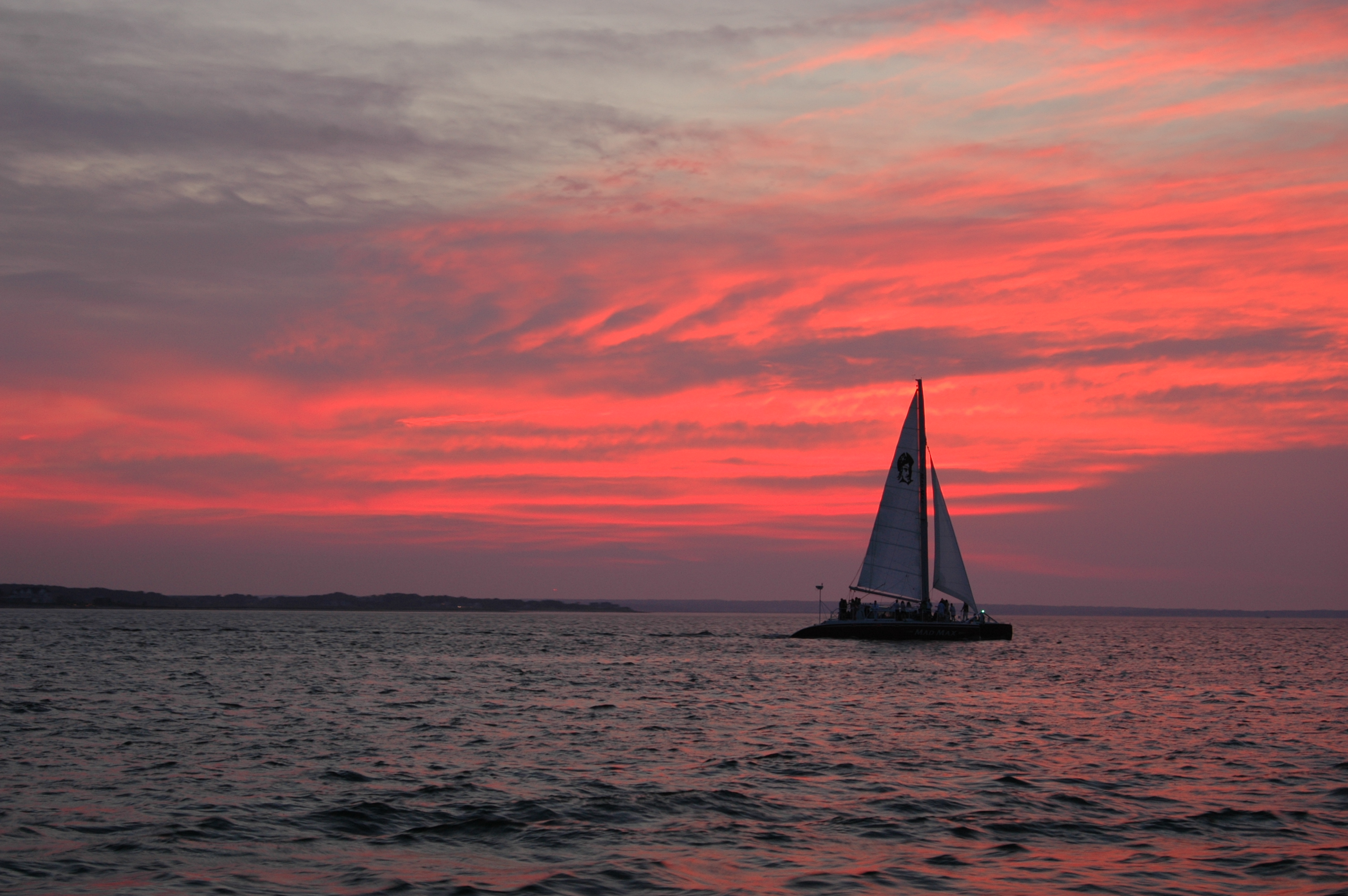 Sailboat on Edgartown Harbor against a red sky at sunset. Taken July 4, 2012 on Edgartown Harbor, Edgartown, Martha's Vineyard, MA.